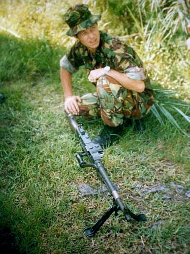 Warrant Officer (WO2) of the Bermuda Regiment, with 7.62mm General Purpose Machine Gun (GPMG), Ferry Reach, St. George's, Bermuda, 1994. Author of image is myself. Aodhdubh 02:25, 17 January 2007 (UTC)